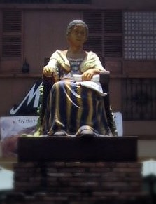 Photo of Leona Florentino statute in Vigan, Ilocos Sur, Philippines